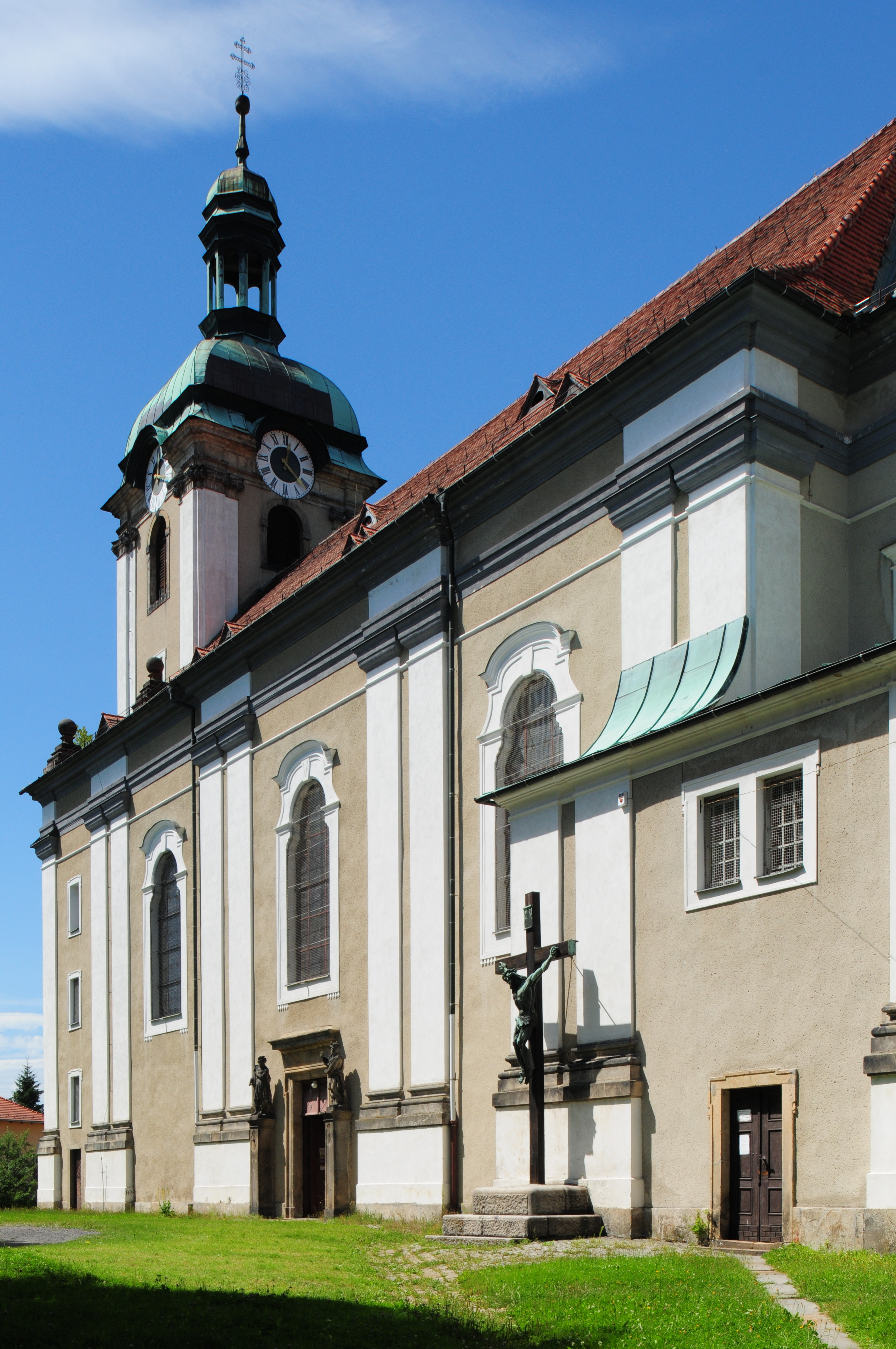 Šluknov (Schluckenau), Church of the Saint Wenceslas, built 1711-1714 (Okres Děčín, Ústecký kraj, Czech Republic)